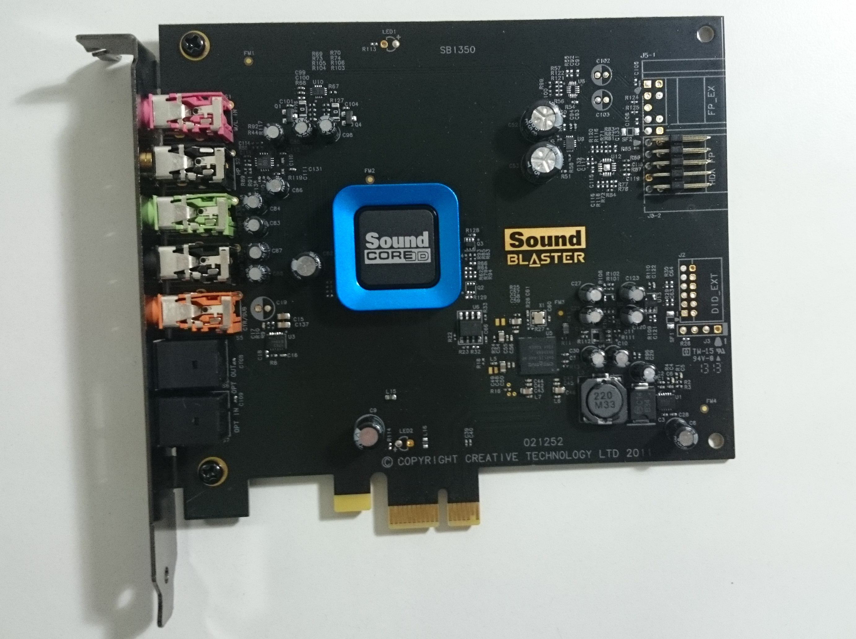 Picture of the front of Sound Blaster Recon3D PCI-Ex sound card.